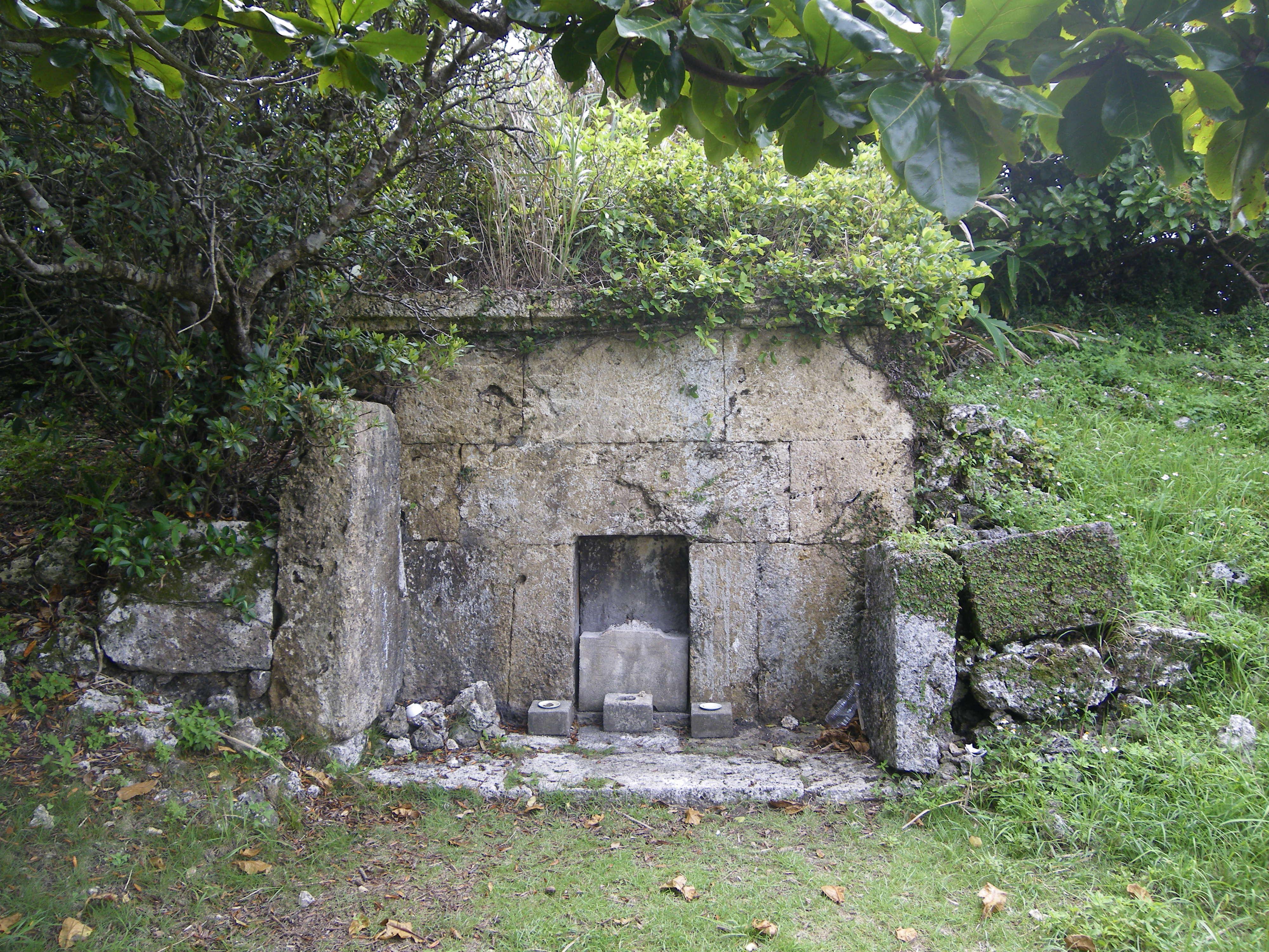 Sashiki Yōdore, the mausoleum of Shō Shishō and his family. His eldest son was Shō Hashi, who united the three polities of Chūzan, Hokuzan, and Nanzan by conquest.